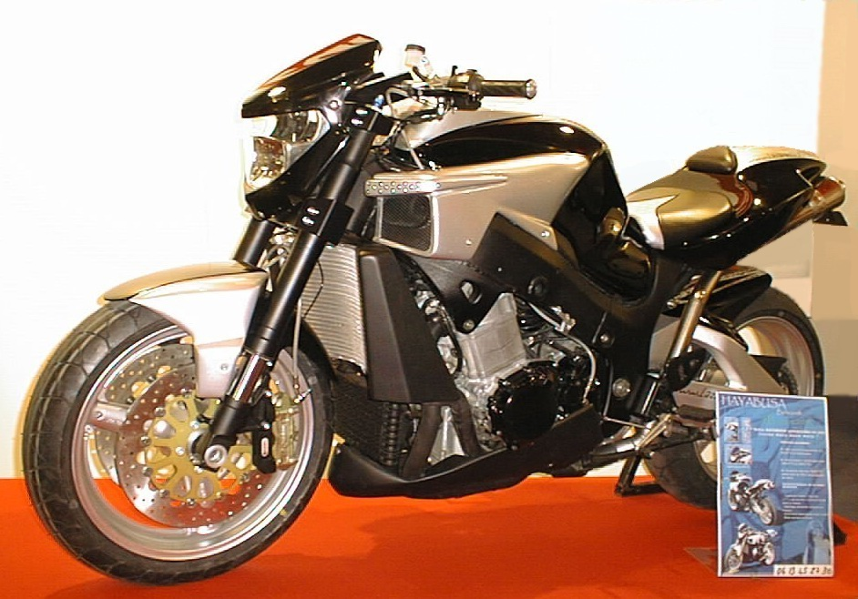 Suzuki Hayabusa "Lazareth". Mondial du deux roues de Paris 2003.